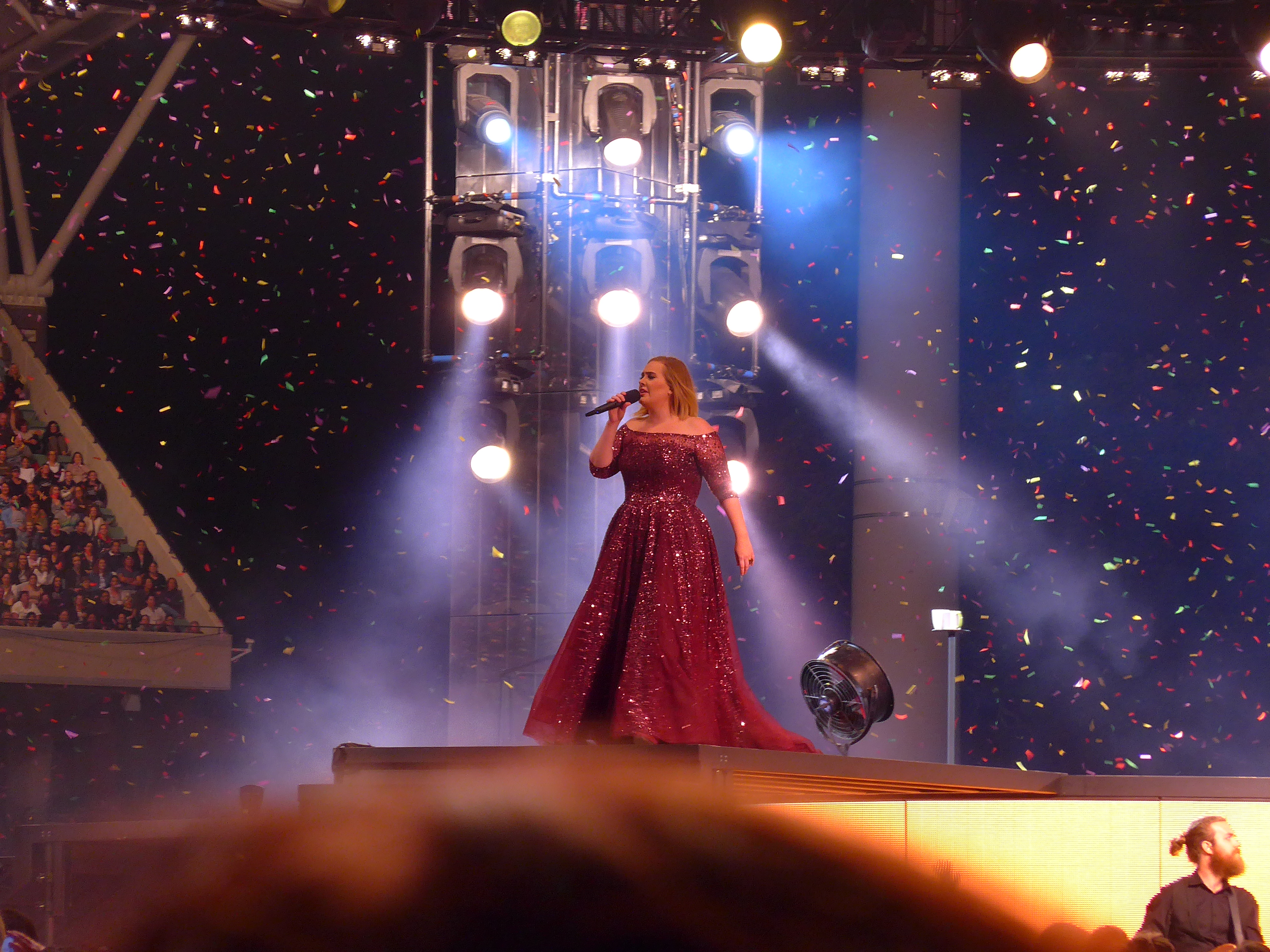 Adele perform at ADELAIDE OVAL during her first AUSTRALIAN TOUR in 2017